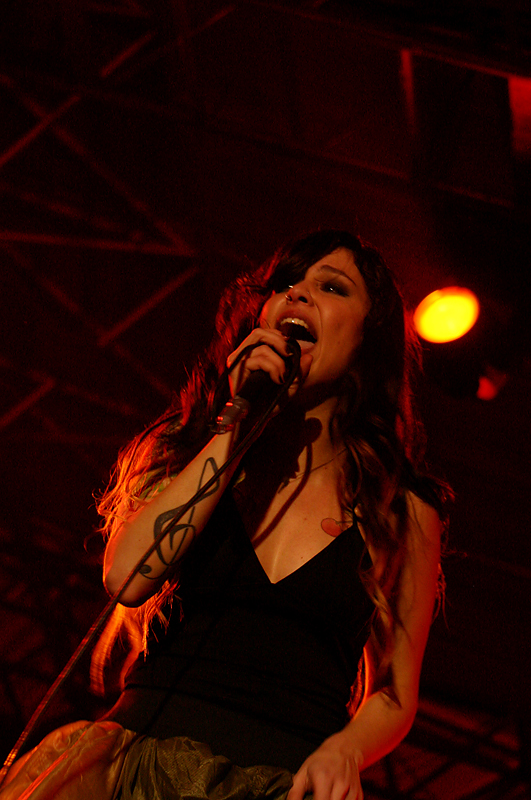 Brazilian singer Pitty.